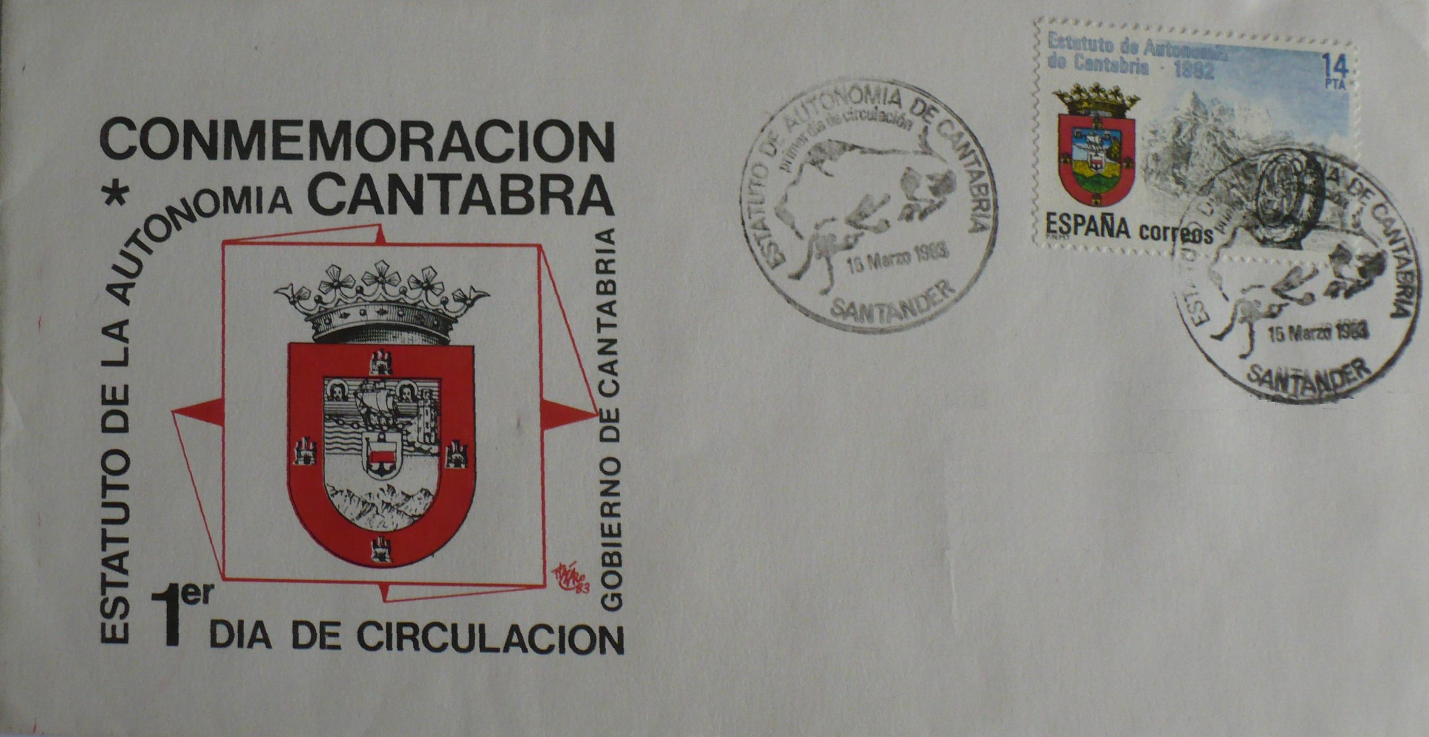 First Day Cover commemorating the Statute of Autonomy of Cantabria